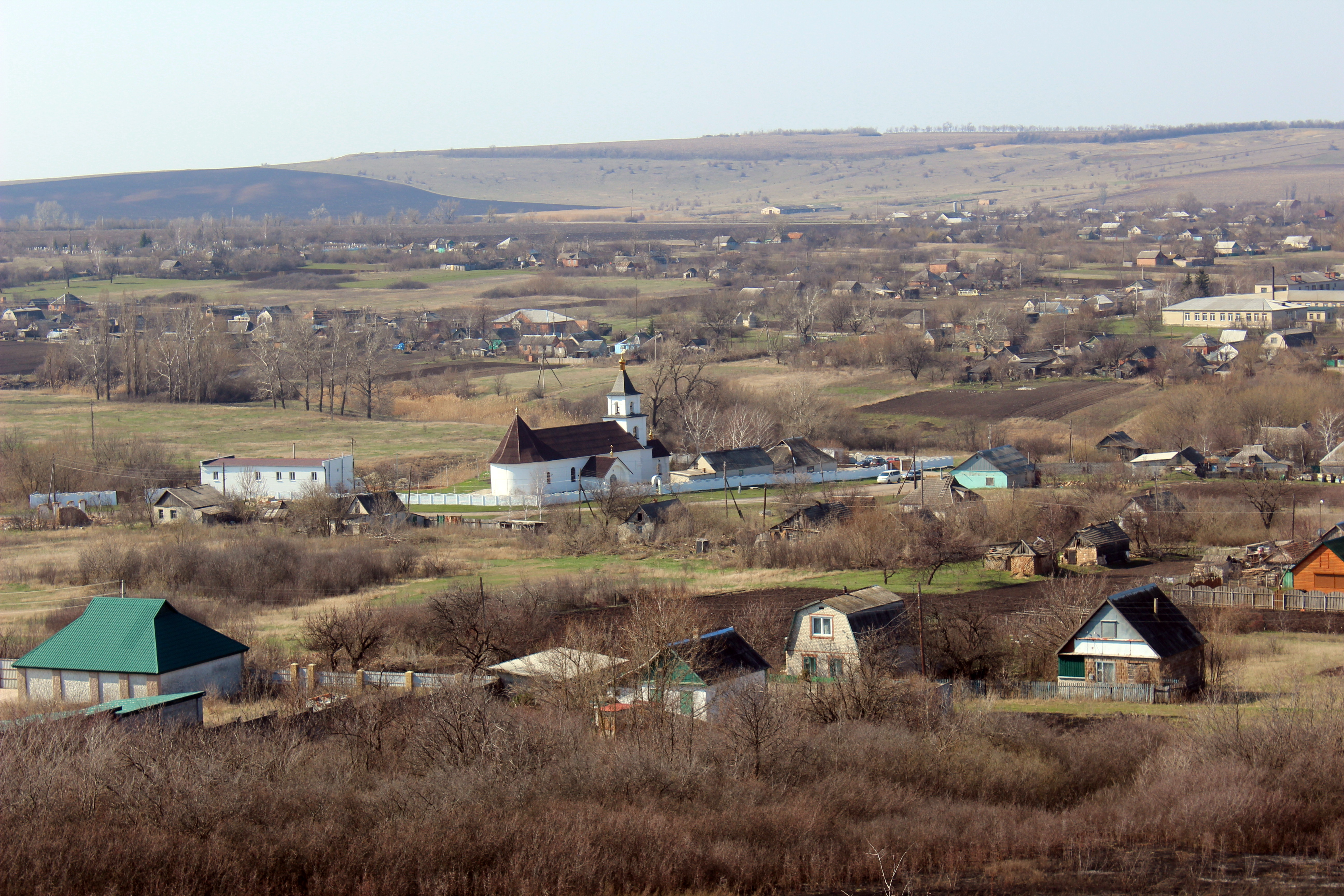 Serebryanka, Ukraine